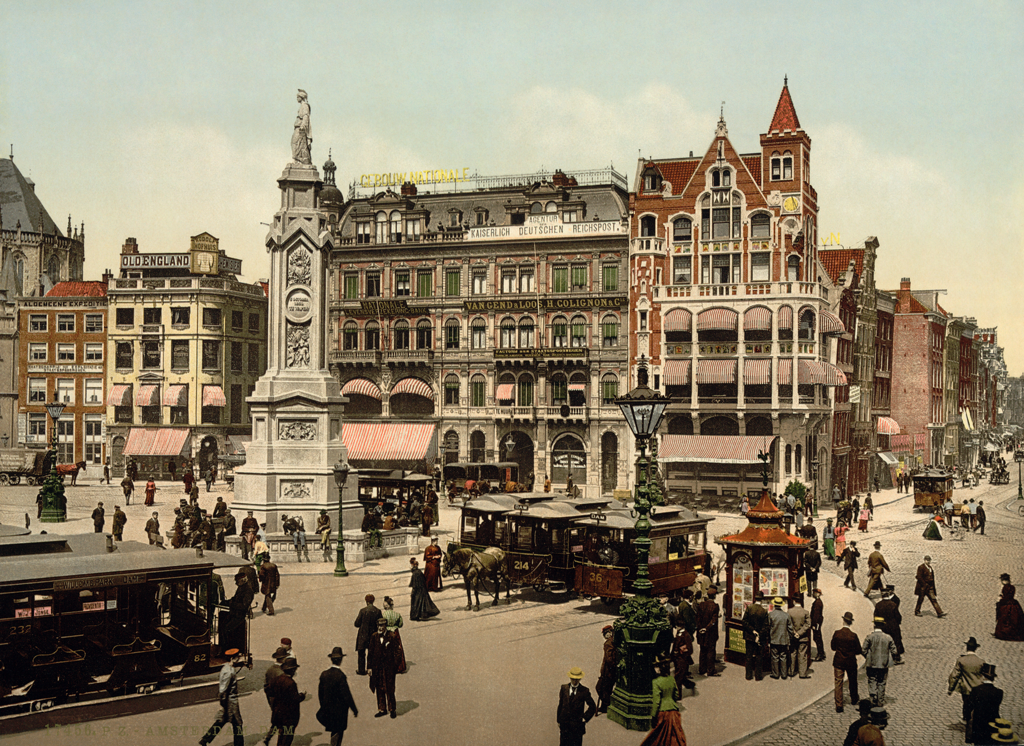 Dam square: Dam square; 1 photomechanical print : photochrom, color. "The cathedral, Amsterdam, Holland" Includes a monument that no longer stands. On the left the Nieuwe Kerk can be seen.